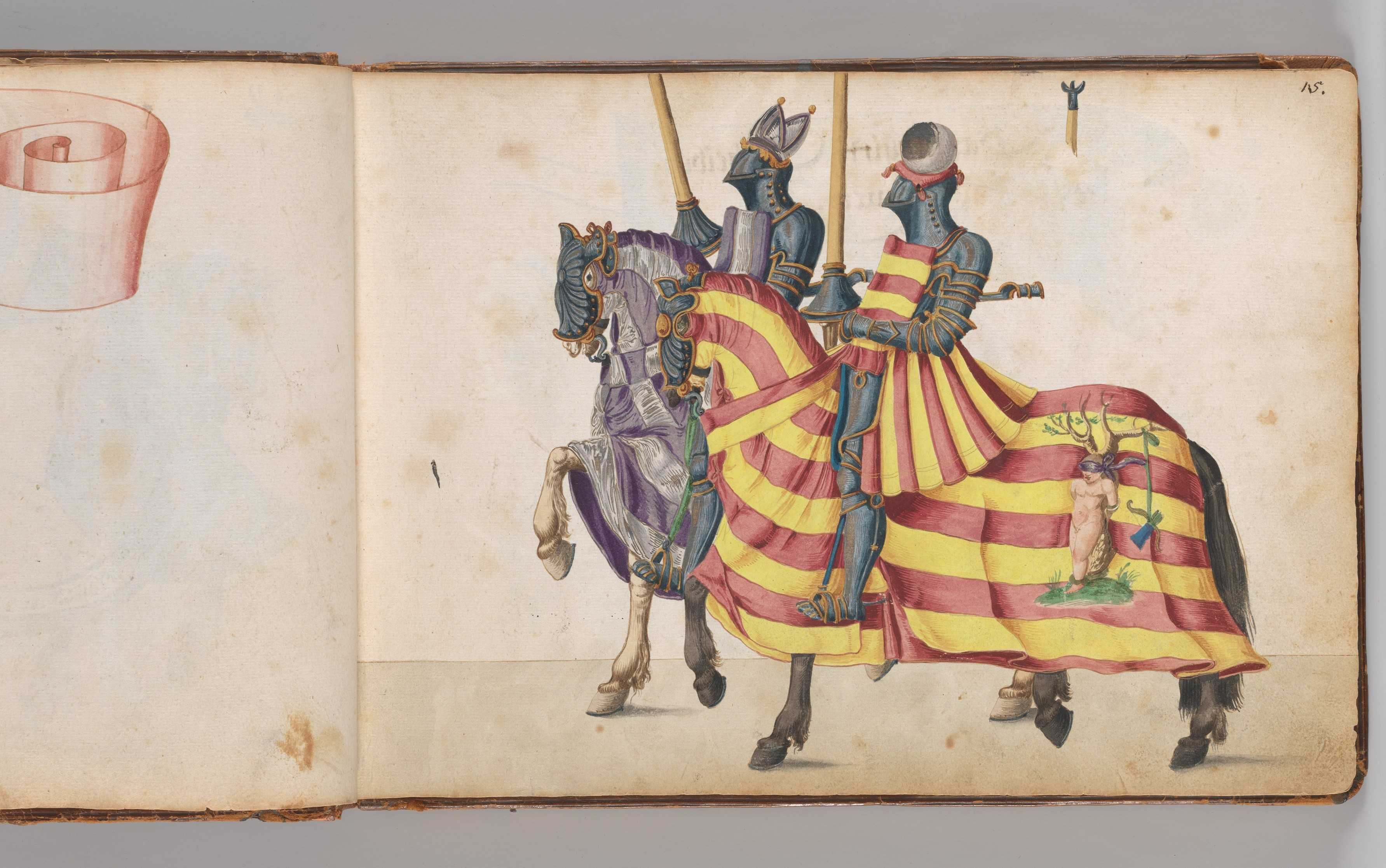 German, Nuremberg; Manuscript; Books & Manuscripts